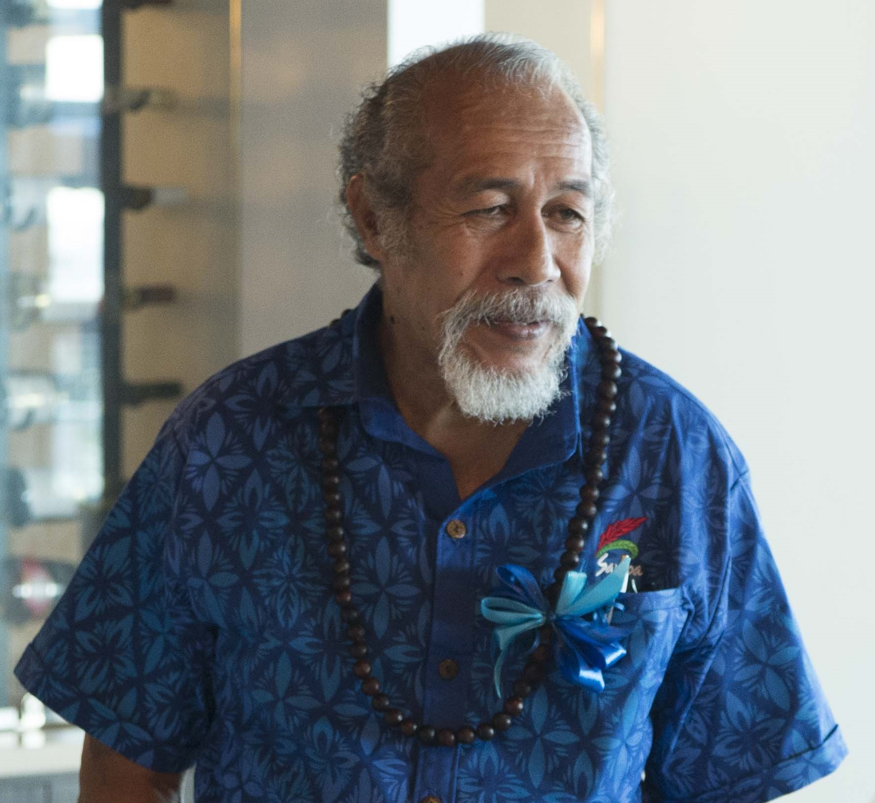 Niuean politician Billy Talagi at the 48th Pacific Islands Forum, September 2017